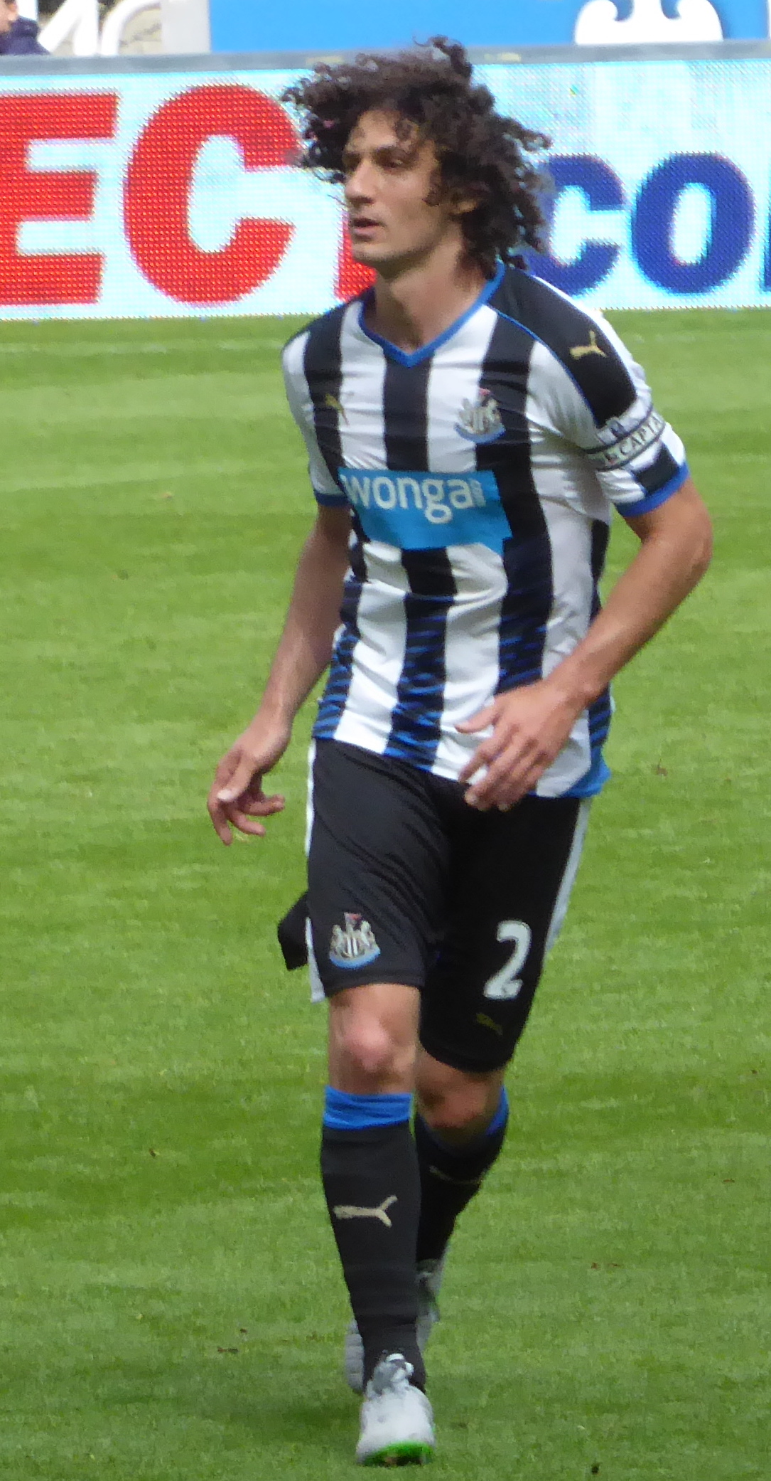 Newcastle United vs Arsenal (0-1), St James' Park, Newcastle upon Tyne, Tyne and Wear, England, August 2015 (cropped)